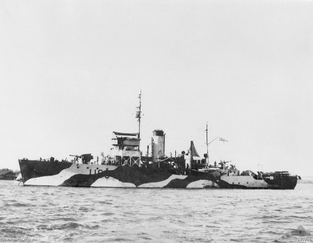 The Bathurst class corvette HMAS Maryborough in Cochin, India in December 1942. Her camouflage scheme at this period was considered unusual.